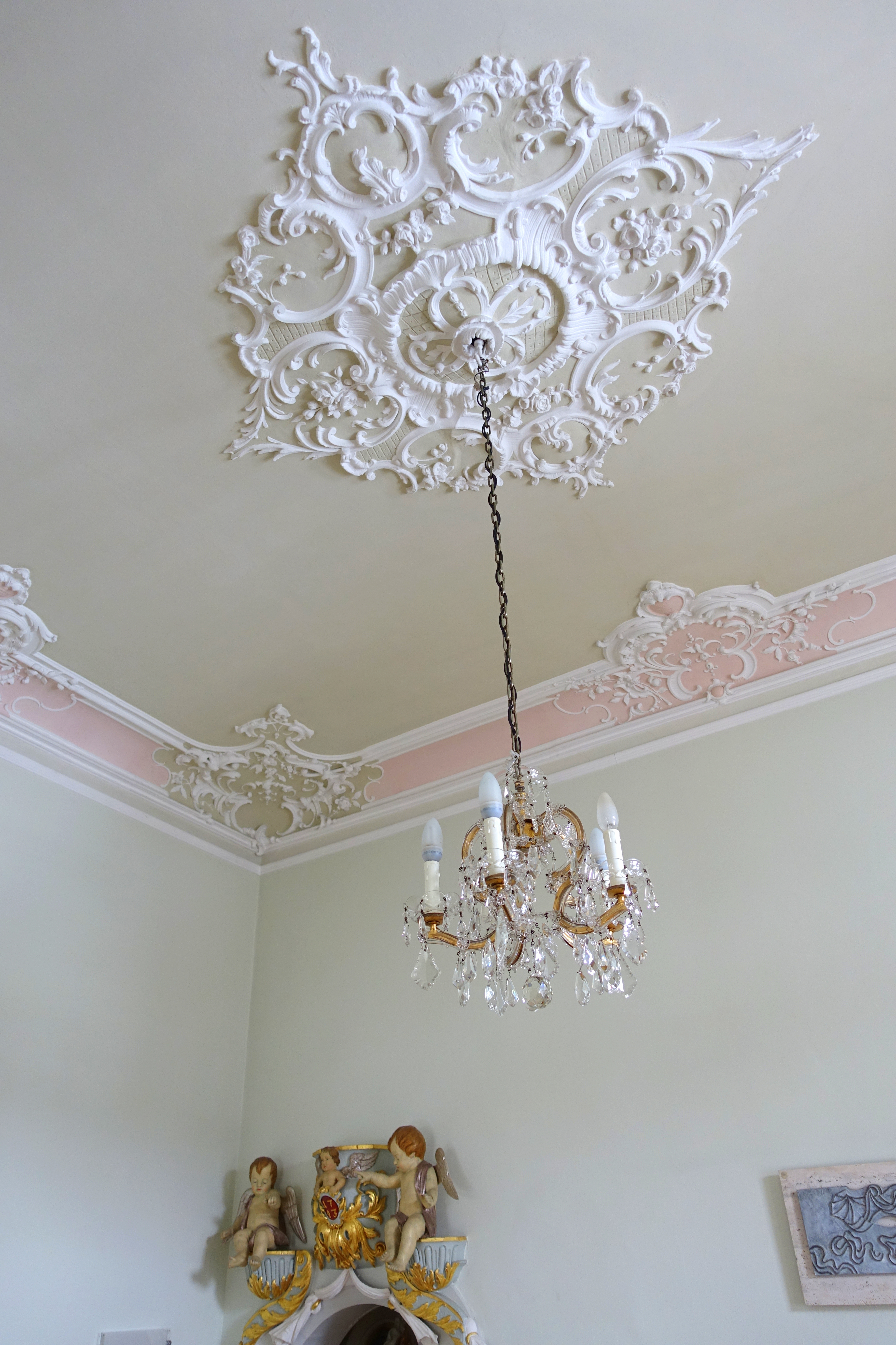 Schloss Dagstuhl, Saarland, Germany. All artwork is old enough so that it is in the public domain.